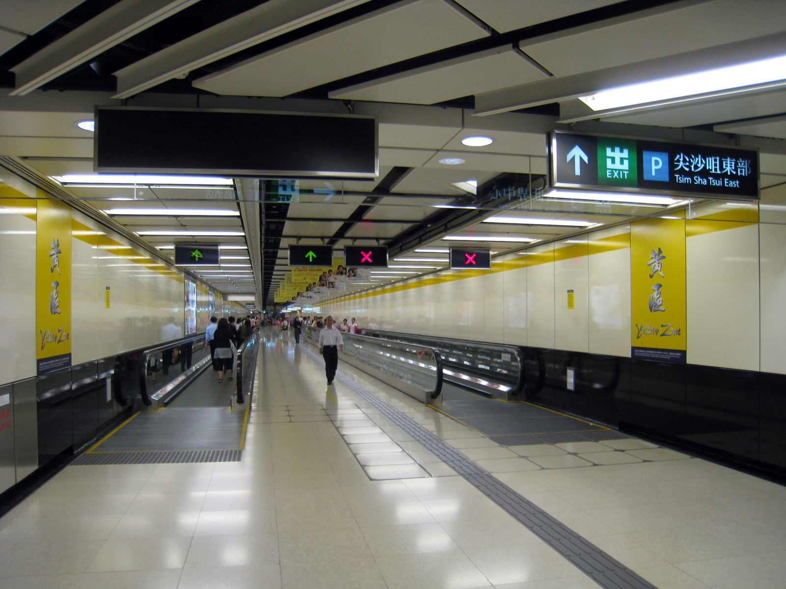 HK MTR ETST Mody Road Subway Yellow Zone 尖東站行人隧道黃區（麼地道行人隧道）